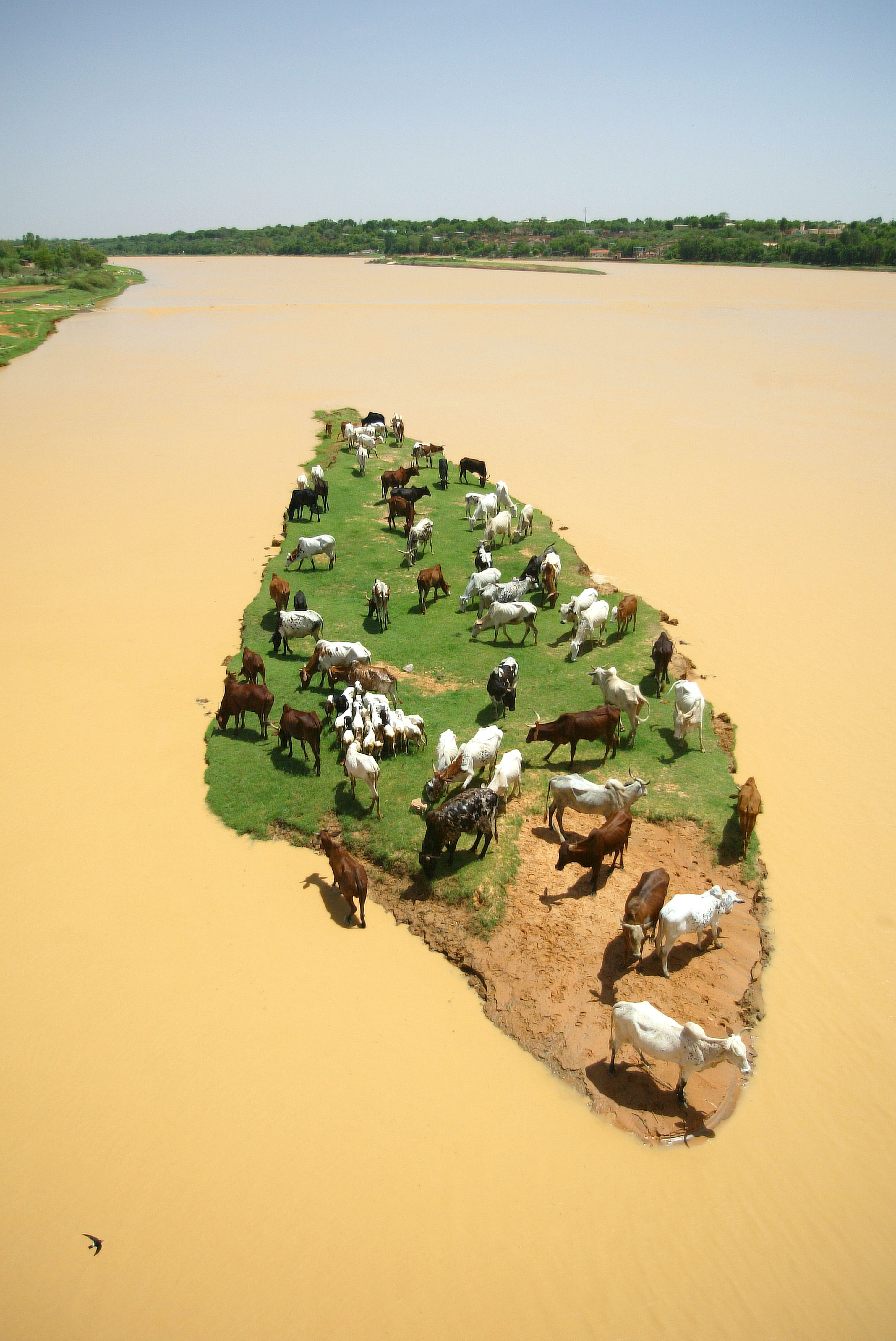 Livestock grazing on an island in the River Niger, as seen off a bridge in Niger’s capital, Niamey. ILRI 2010 Calendar, caption Creating new options for people living with scarce resources. More livestock assets mean more security for the poor.